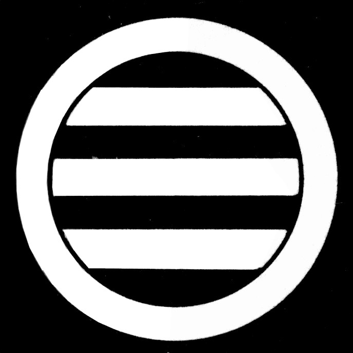 Japanese Crest Three stripes within a ring